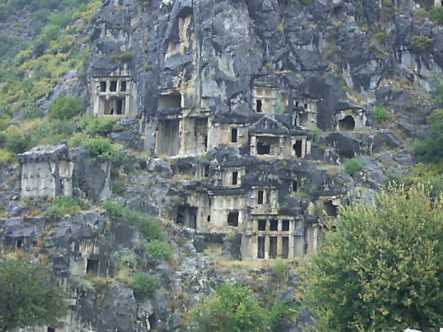 Myra, rock tombs. 2005 summer. by Timea Baksa